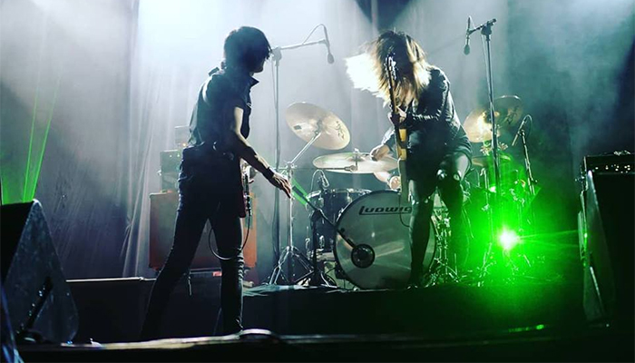 Capsula Live in Europe